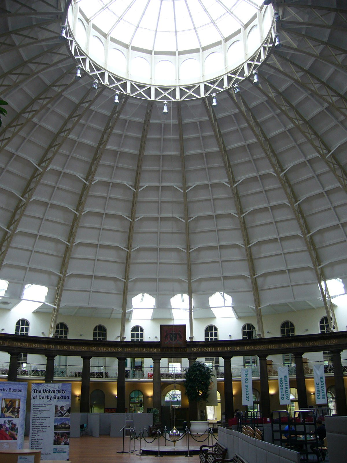 The Devonshire Dome in Buxton, Derbyshire, England. The dome began life as a superior stable! It became the Devonshire Royal Hospital and now serves as the Devonshire Campus of the University of Derby. The description at Images of England gives the full text of the inscription on the frieze. A Foucault pendulum hangs in the middle.